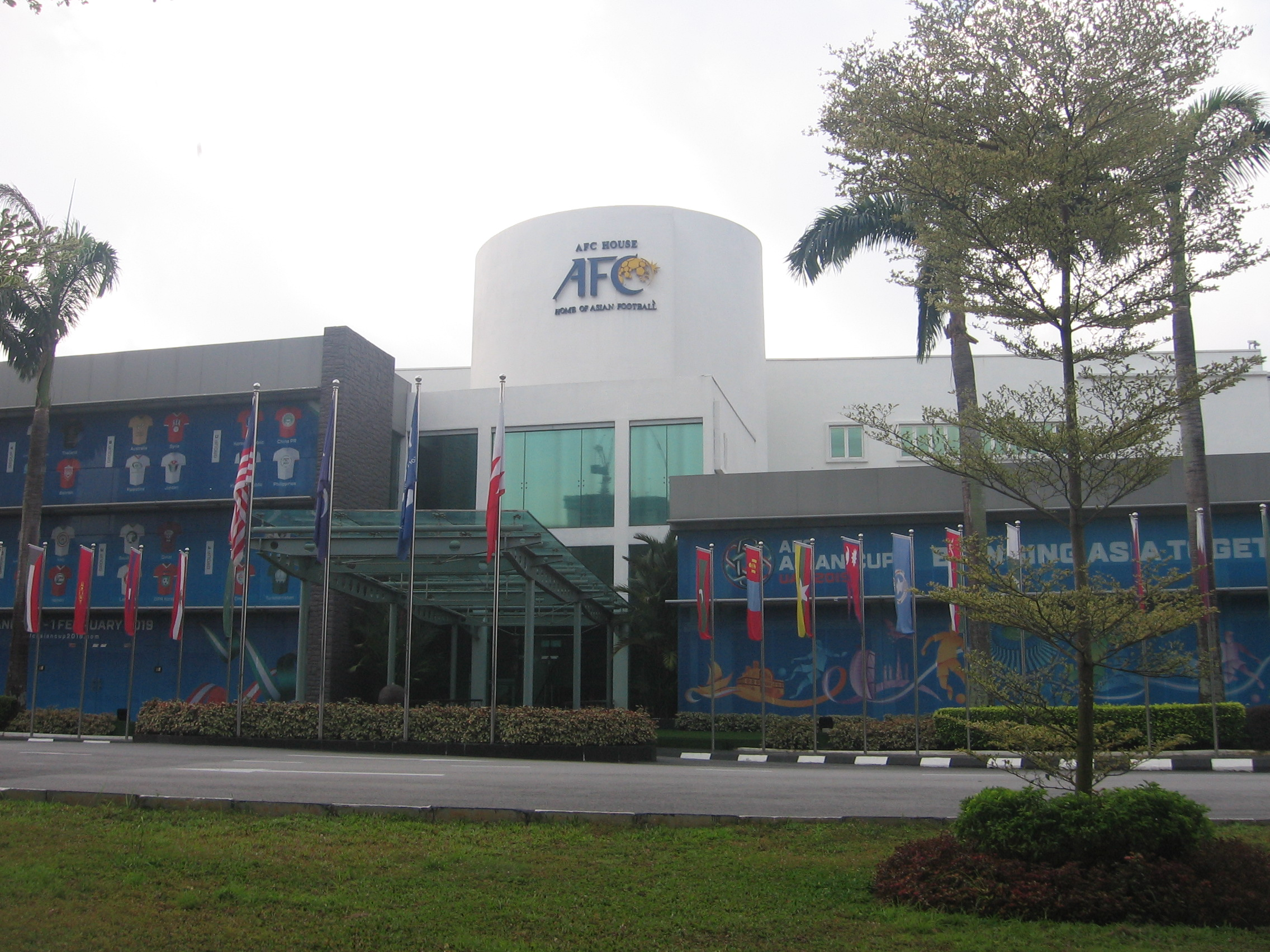 AFC Headquarters in Kuala Lumpur, Malaysia.